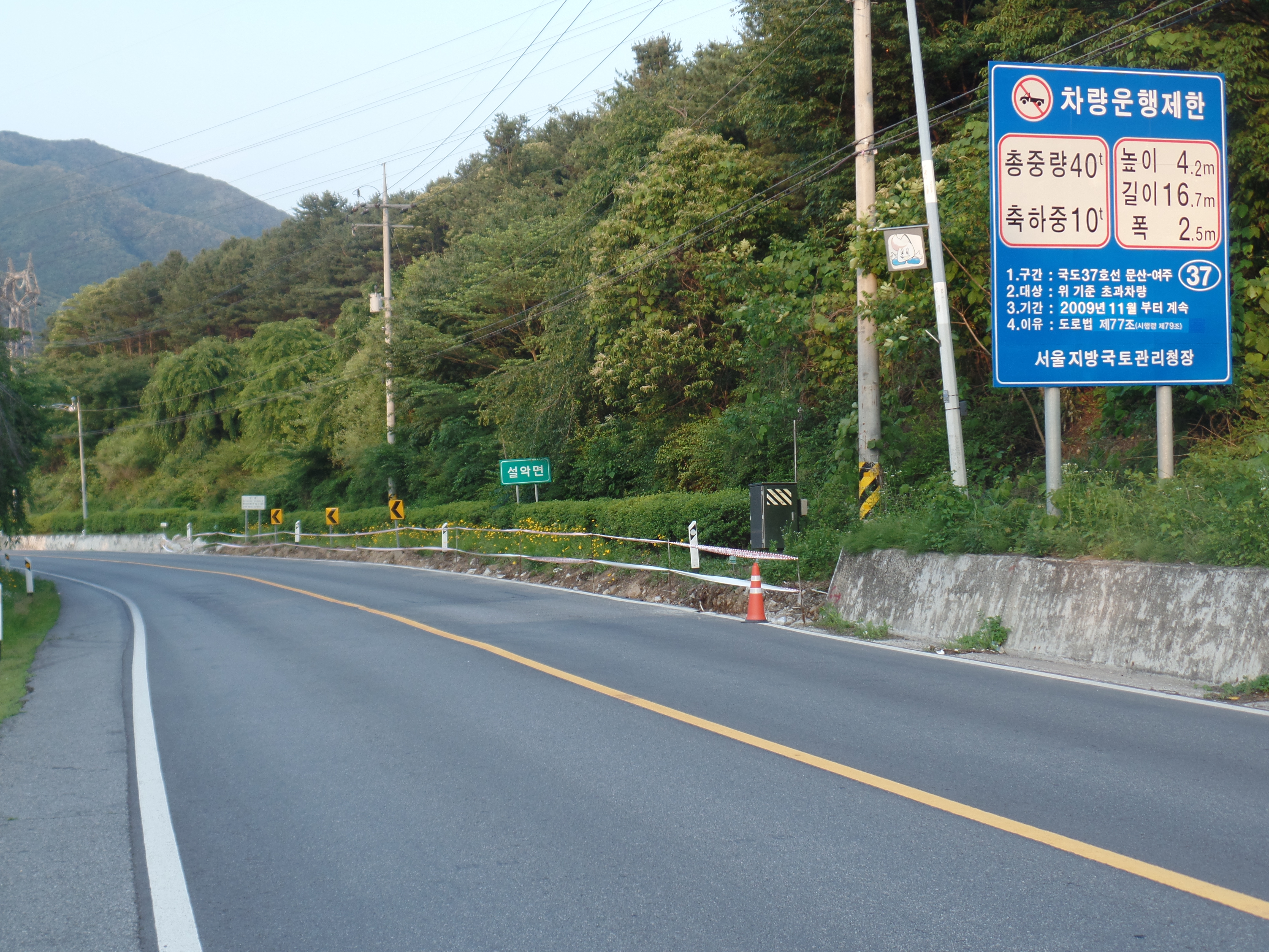 Korea National Route 37 Cheongpyeong-Seolak Border(Gapyeong, Gyeonggi-do) and Limit sign